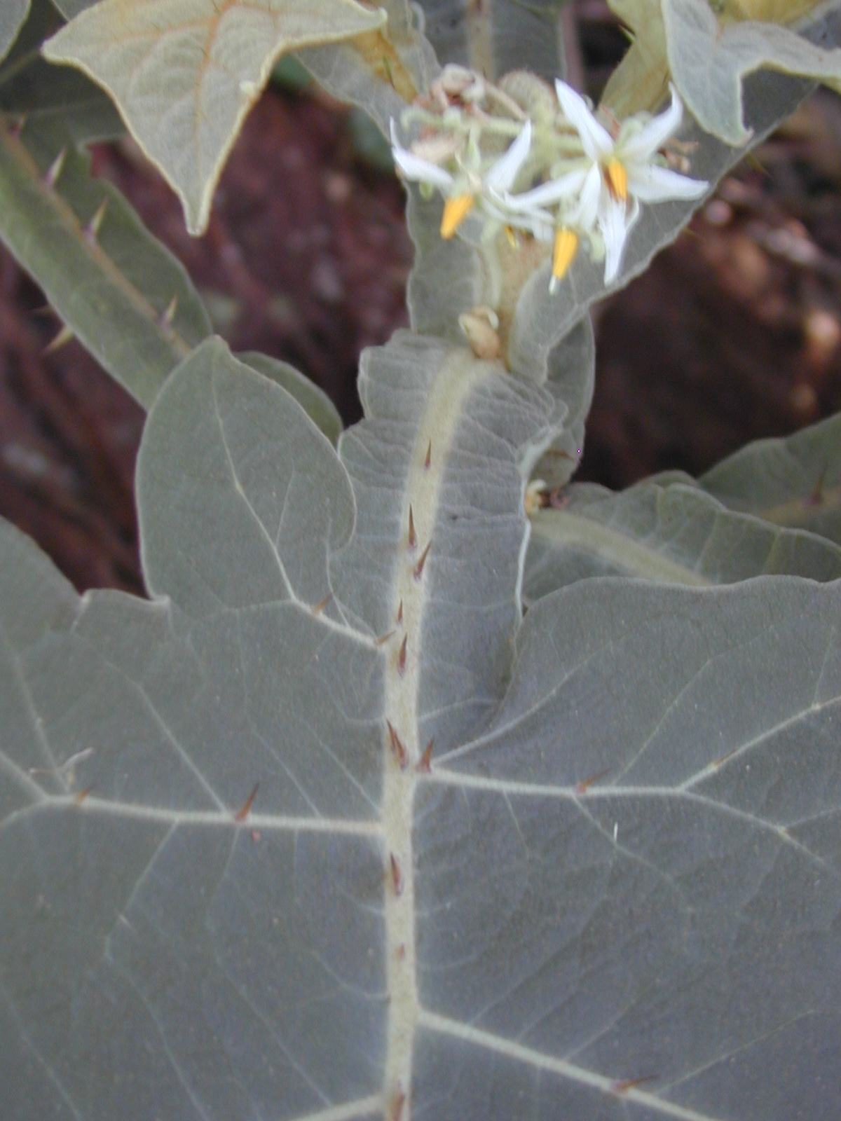 Solanum robustum (thorny leaf). Location: Maui, Kailua